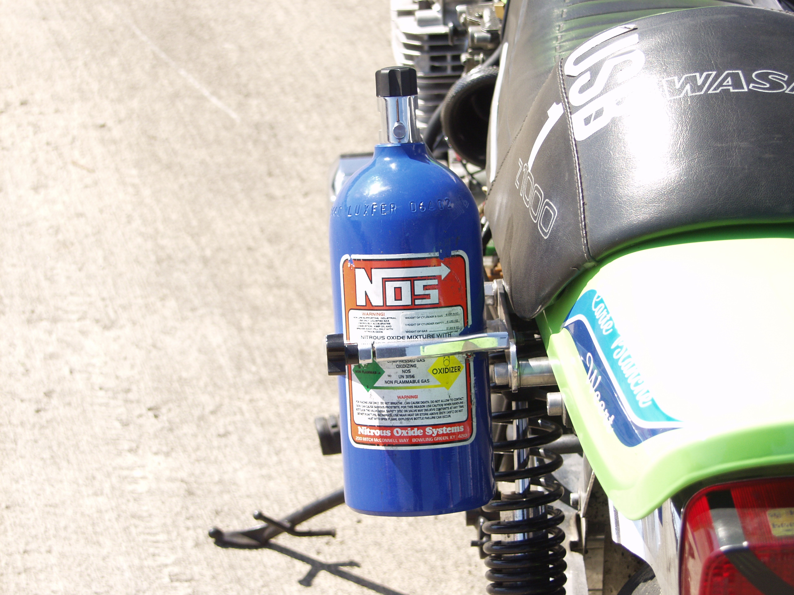 Transferred from nl.wikipedia to Commons. The original description page was here. All following user names refer to nl.wikipedia.